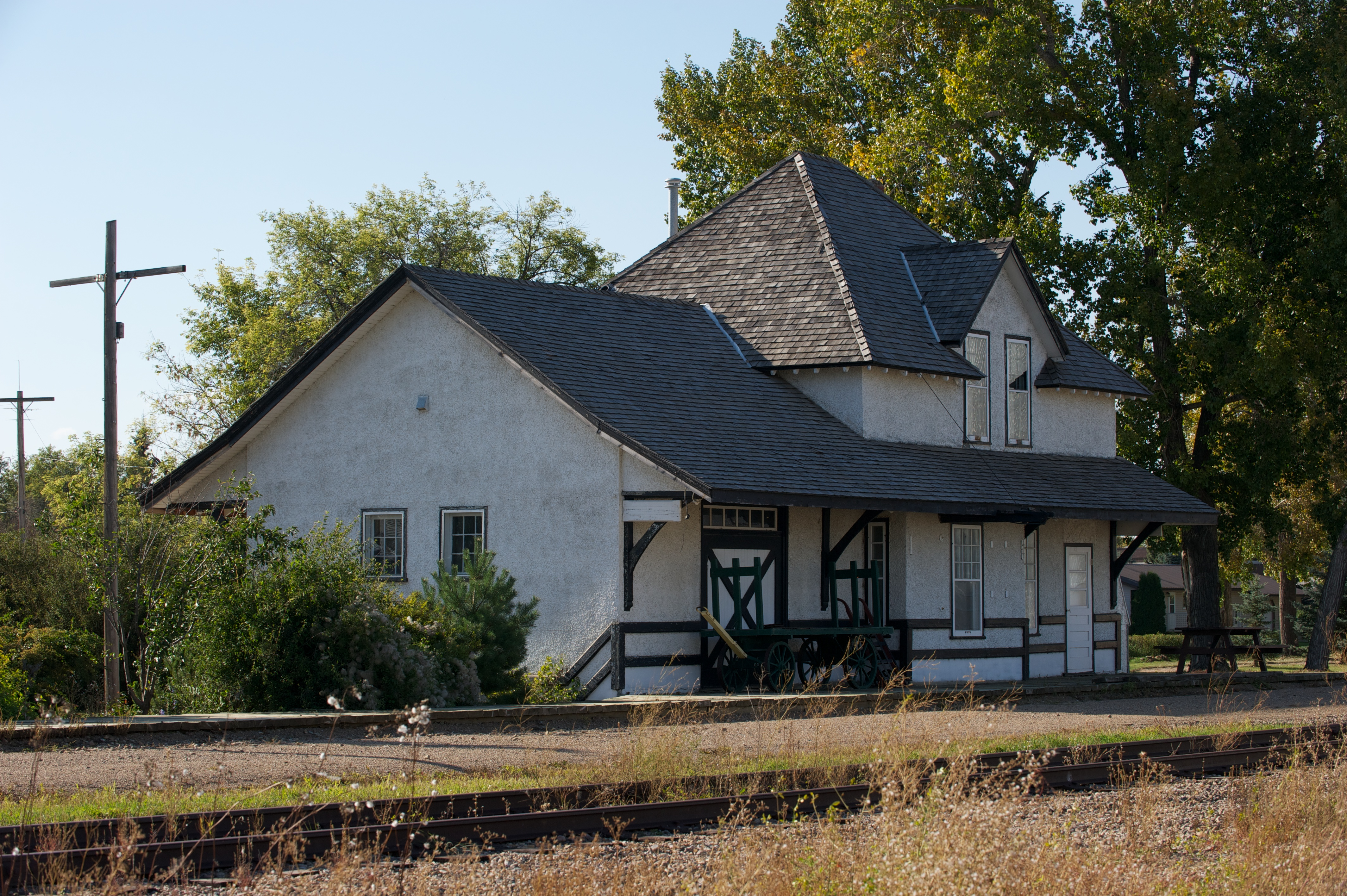 Railway Avenue, Edam, Saskatchewan, S0M, Canada